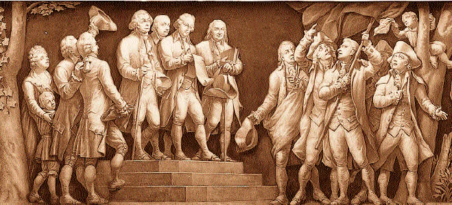 "Declaration of Independence" - This idealized depiction shows the principal authors of the Declaration of Independence, John Adams, Thomas Jefferson, and Benjamin Franklin, reading the document to colonists. The frieze in the Rotunda of the United States Capitol contains a painted panorama depicting significant events in American history. Thomas U. Walter's 1859 cross-section drawing of the new dome (constructed 1855-1863) shows a recessed belt atop the Rotunda walls with relief sculpture. Eventually it was painted in true fresco, a difficult and exacting technique in which the pigments are applied directly onto wet plaster. As the plaster cures the colors become part of the wall. Consequently, each section of plaster must be painted the day it is laid. The frieze is painted in grisaille, a monochrome of whites and browns that resembles sculpture. It measures 8 feet 4 inches in height and approximately 300 feet in circumference. It starts 58 feet above the floor. The frieze is the work of three artists, Constantino Brumidi, Filippo Costaggini and Allyn Cox. It was designed by Brumidi, an Italian artist who studied in Rome before emigrating to America. Brumidi created a sketch for the Rotunda frieze in 1859 but was not authorized to begin work until 1877.